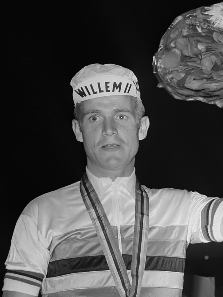 Wereldkampioensch. wielrennen op de weg, l. Ottenbros r. Oudkerk 11 augustus 1969